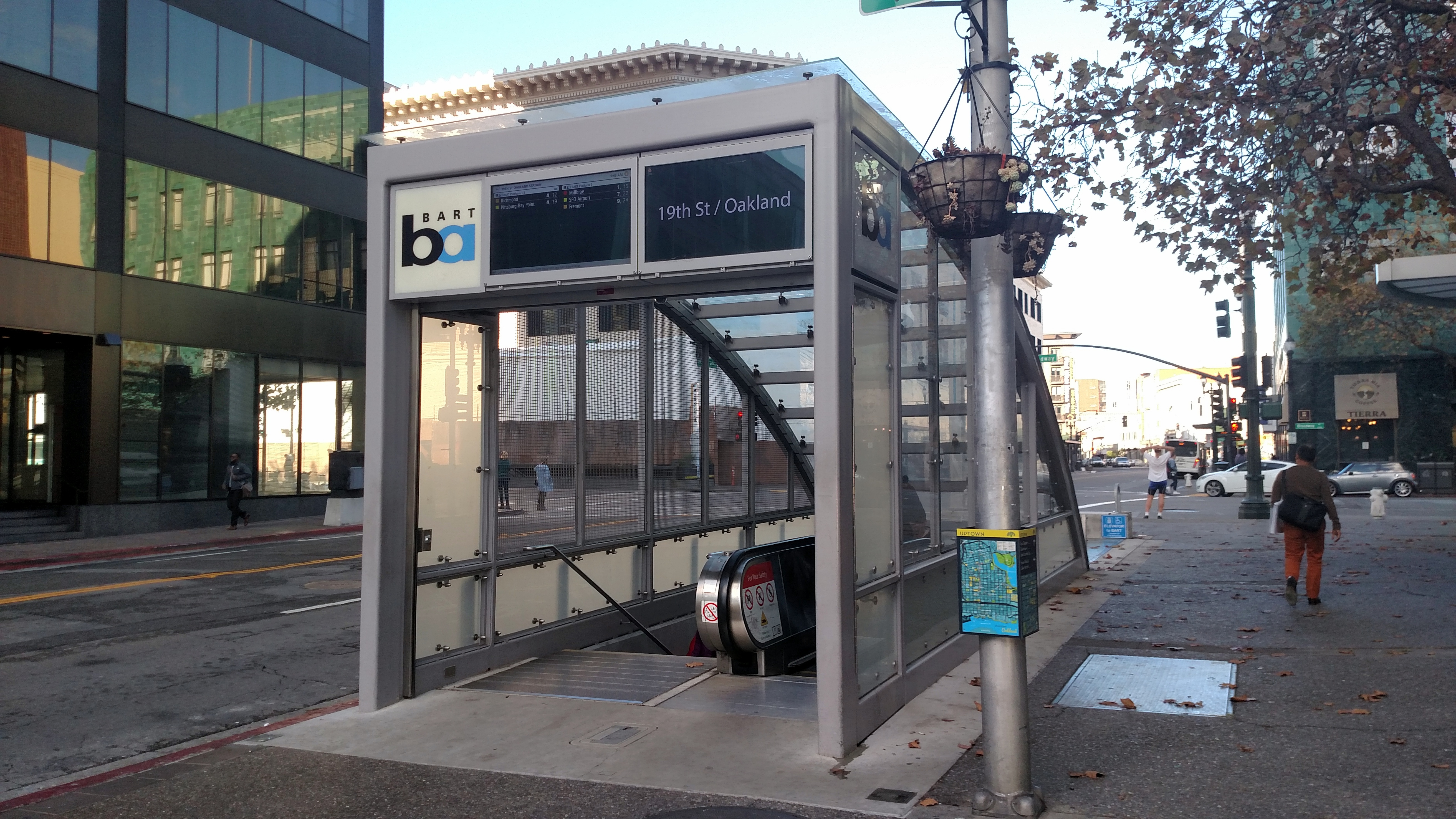 The 2015-constructed canopy at the 20th Street entrance to 19th Street station in November 2017